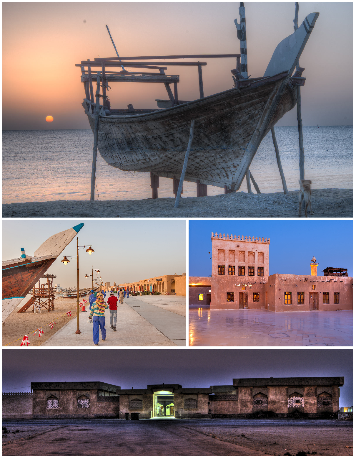 Montage of Al Wakrah City, Qatar.